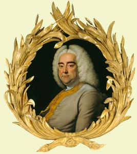 Portrait of George Frideric Handel from the Royal Collection - now displayed in the Composing Room, Handel House Museum, 25 Brook Street, London